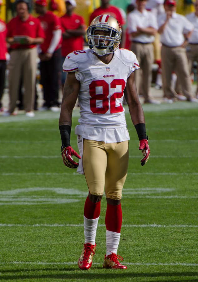 San Francisco 49ers vs. Green Bay Packers at Lambeau Field on September 9, 2012. Photo by Mike Morbeck.